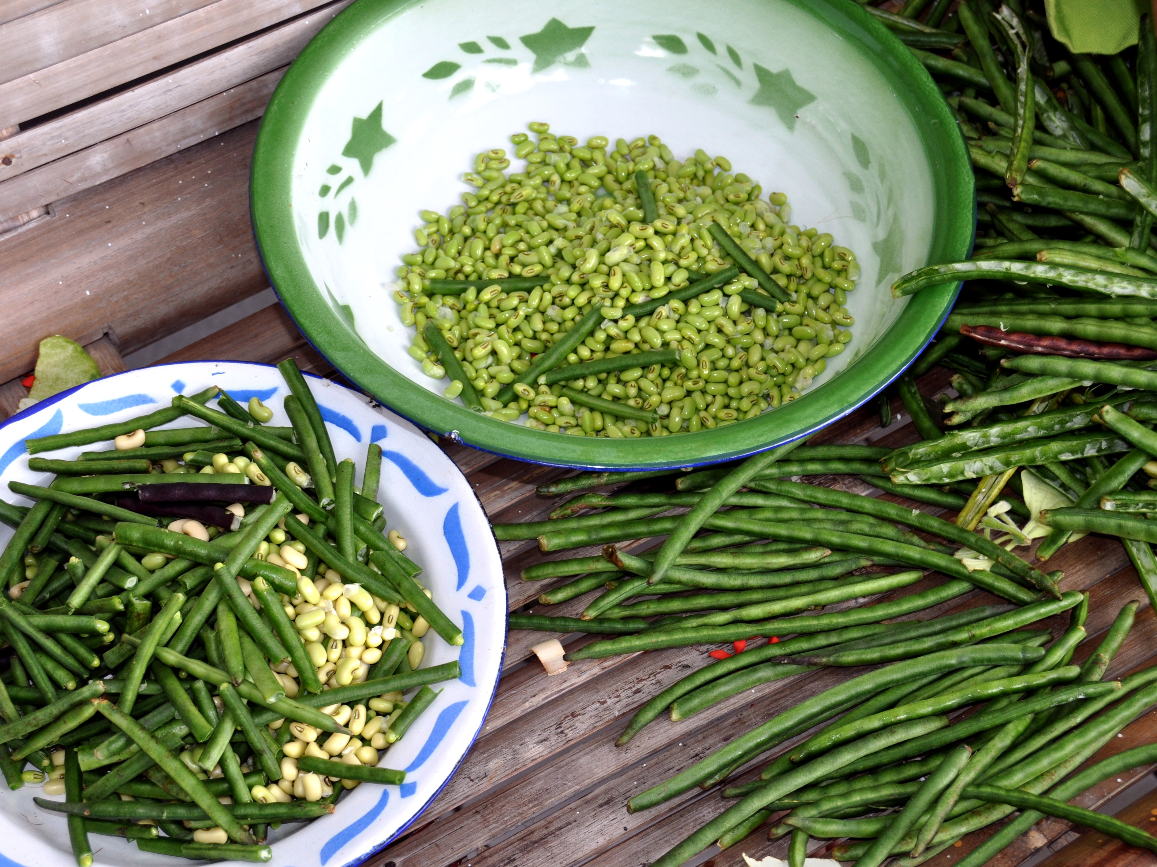 Cowpea Vigna unguiculata cultigroup Unguiculata, from Lumajang, East Java, Indonesia. Young pods prepared to cook.